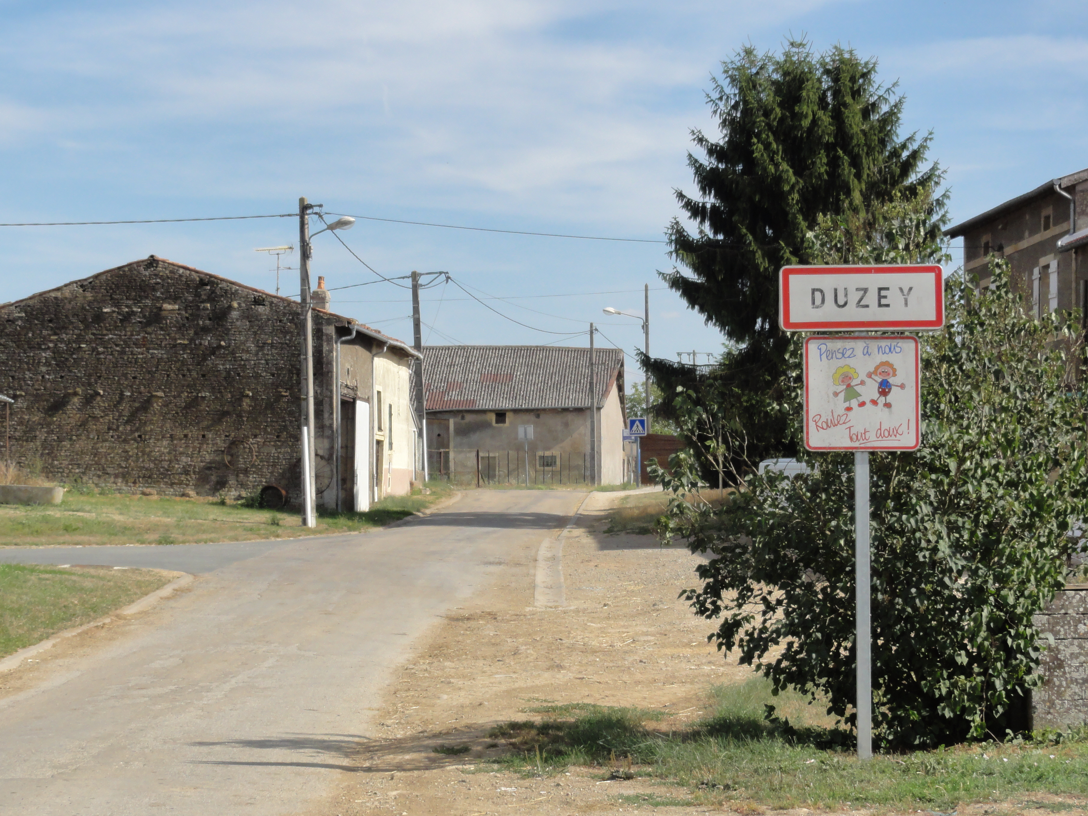 Duzey (Meuse) city limit sign